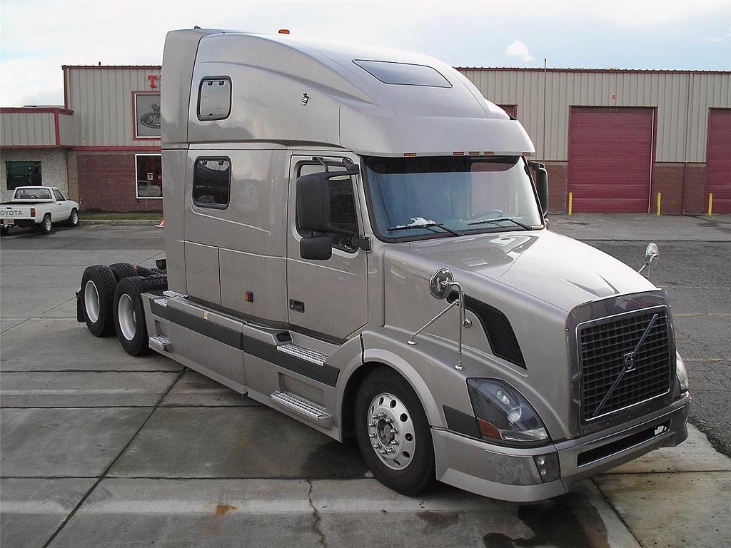 A Volvo VNL780 premium highway truck.